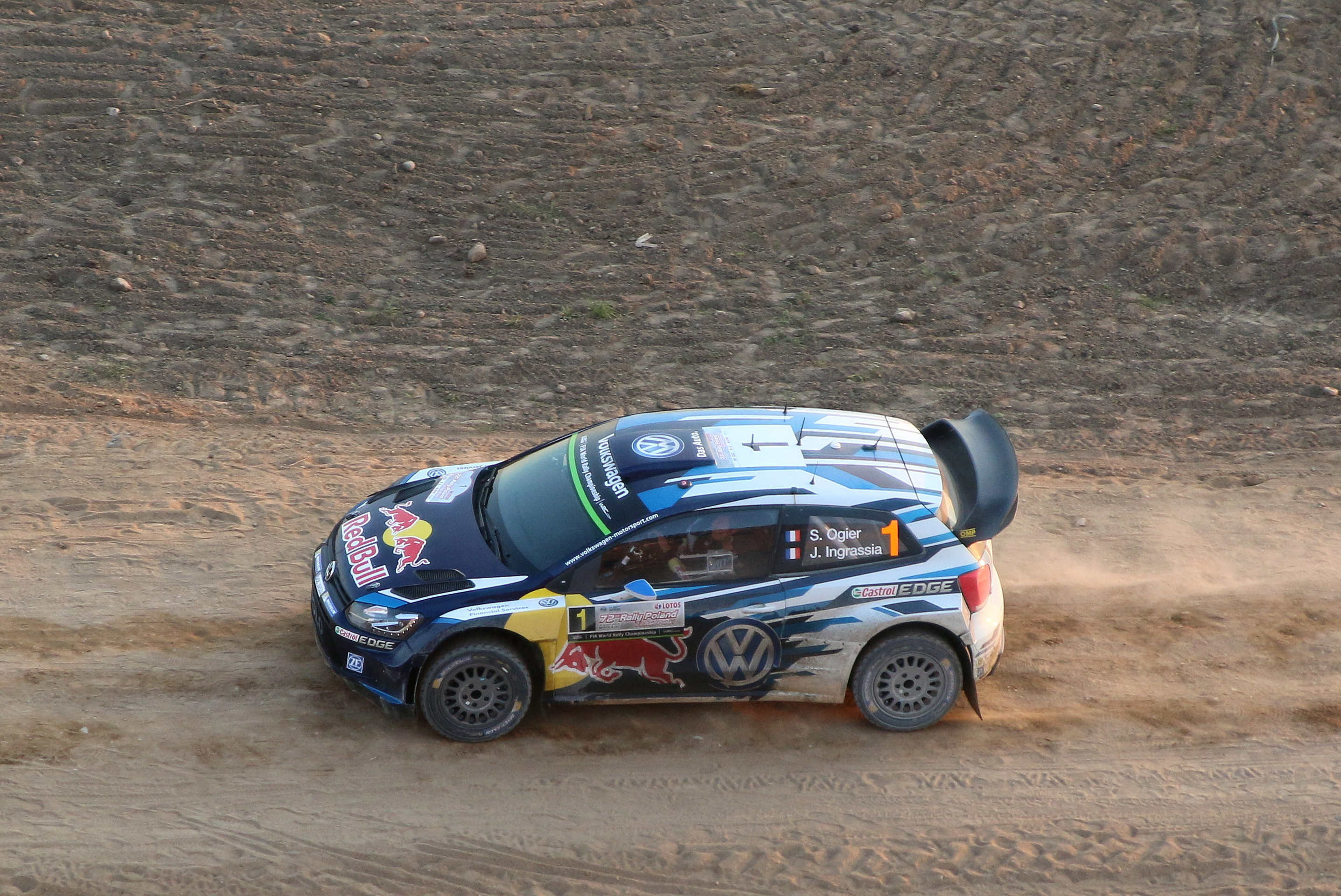 Sébastien Ogier after 17 OS Polish Rally 2015